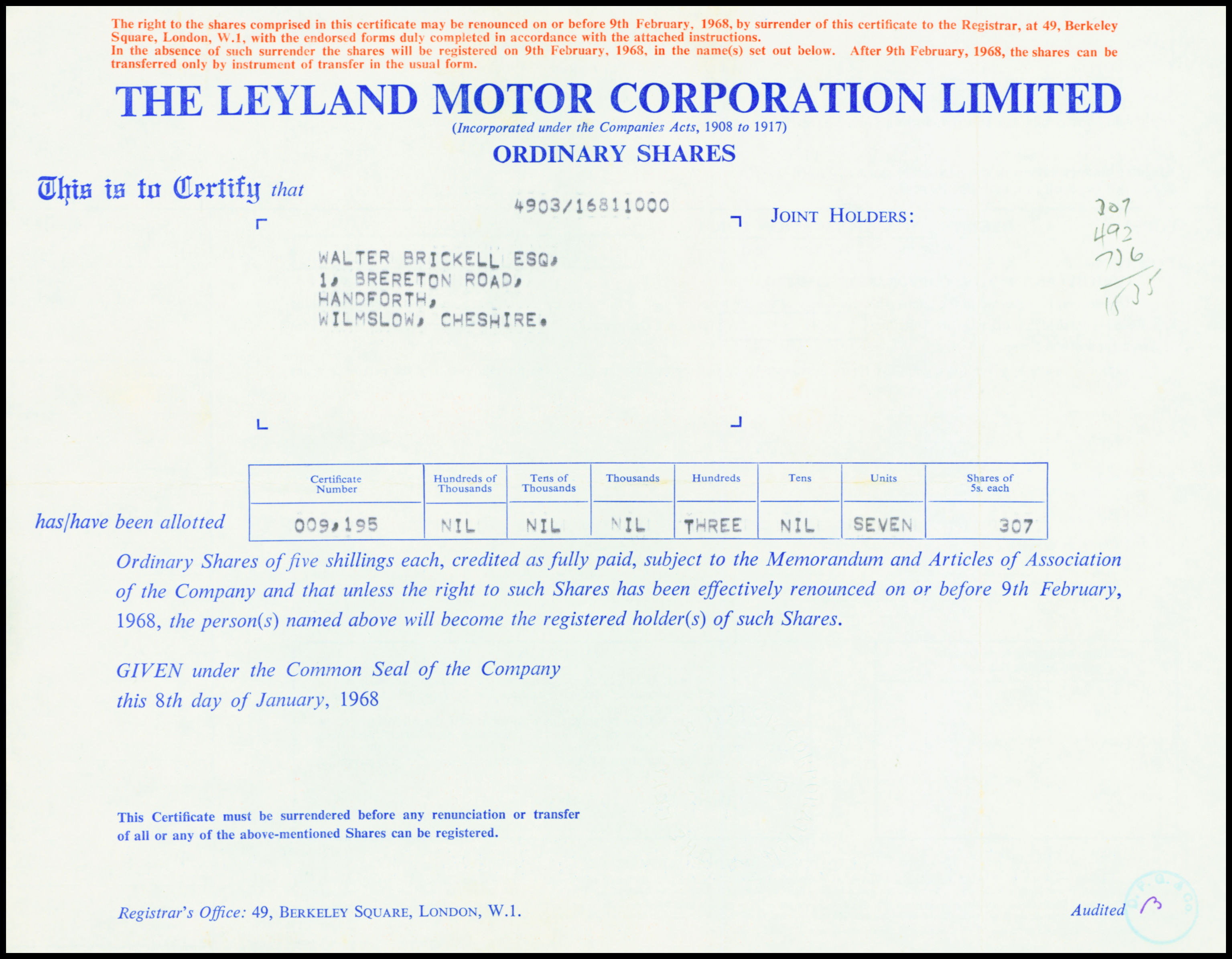 Aktie der Leyland Motor Corporation Ltd vom 8. Januar 1968